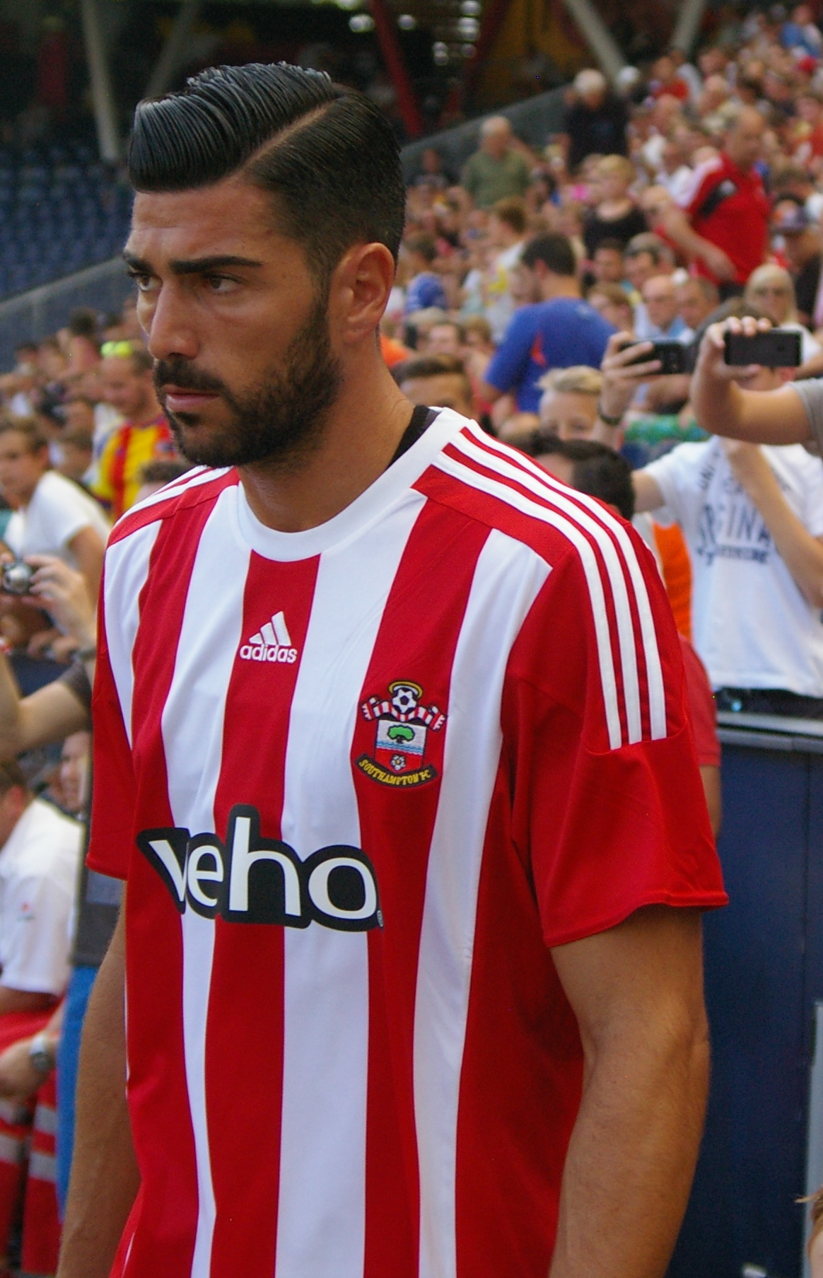 tournament with SV Werder Bremen, FC Southampton, Red Bull Salzburg and Valencia CF preseason friendly matches